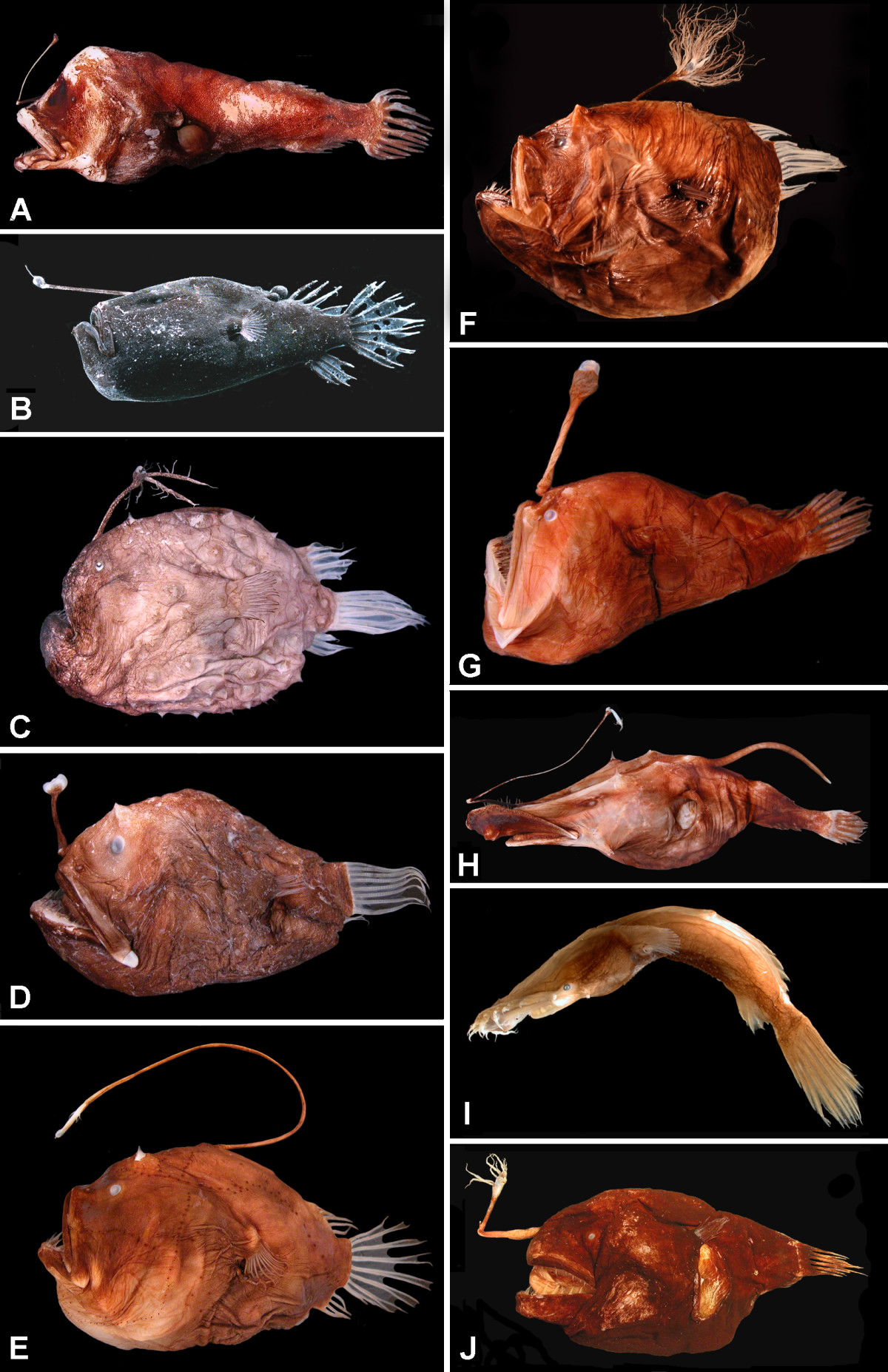 Representatives of ceratioid families as recognized in this study-1. (A) Centrophrynidae: Centrophryne spinulosa Regan and Trewavas, 136 mm SL, LACM 30379-1; (B) Ceratiidae: Cryptopsaras couesii Gill, 34.5 mm SL, BMNH 2006.10.19.1 (photo by E. A. Widder); (C) Himantolophidae: Himantolophus appelii (Clarke), 124 mm SL, CSIRO H.5652-01; (D) Diceratiidae: Diceratias trilobus Balushkin and Fedorov, 86 mm SL, AMS I.31144-004; (E) Diceratiidae: Bufoceratias wedli (Pietschmann), 96 mm SL, CSIRO H.2285-02; (F) Diceratiidae: Bufoceratias shaoi Pietsch, Ho, and Chen, 101 mm SL, ASIZP 61796 (photo by H.-C. Ho); (G) Melanocetidae: Melanocetus eustales Pietsch and Van Duzer, 93 mm SL, SIO 55-229; (H) Thaumatichthyidae: Lasiognathus amphirhamphus Pietsch, 157 mm SL, BMNH 2003.11.16.12; (I) Thaumatichthyidae: Thaumatichthys binghami Parr, 83 mm SL, UW 47537 (photo by C. Kenaley); (J) Oneirodidae: Chaenophryne quasiramifera Pietsch, 157 mm SL, SIO 72-180. Courtesy of the American Society of Ichthyologists and Herpetologists.